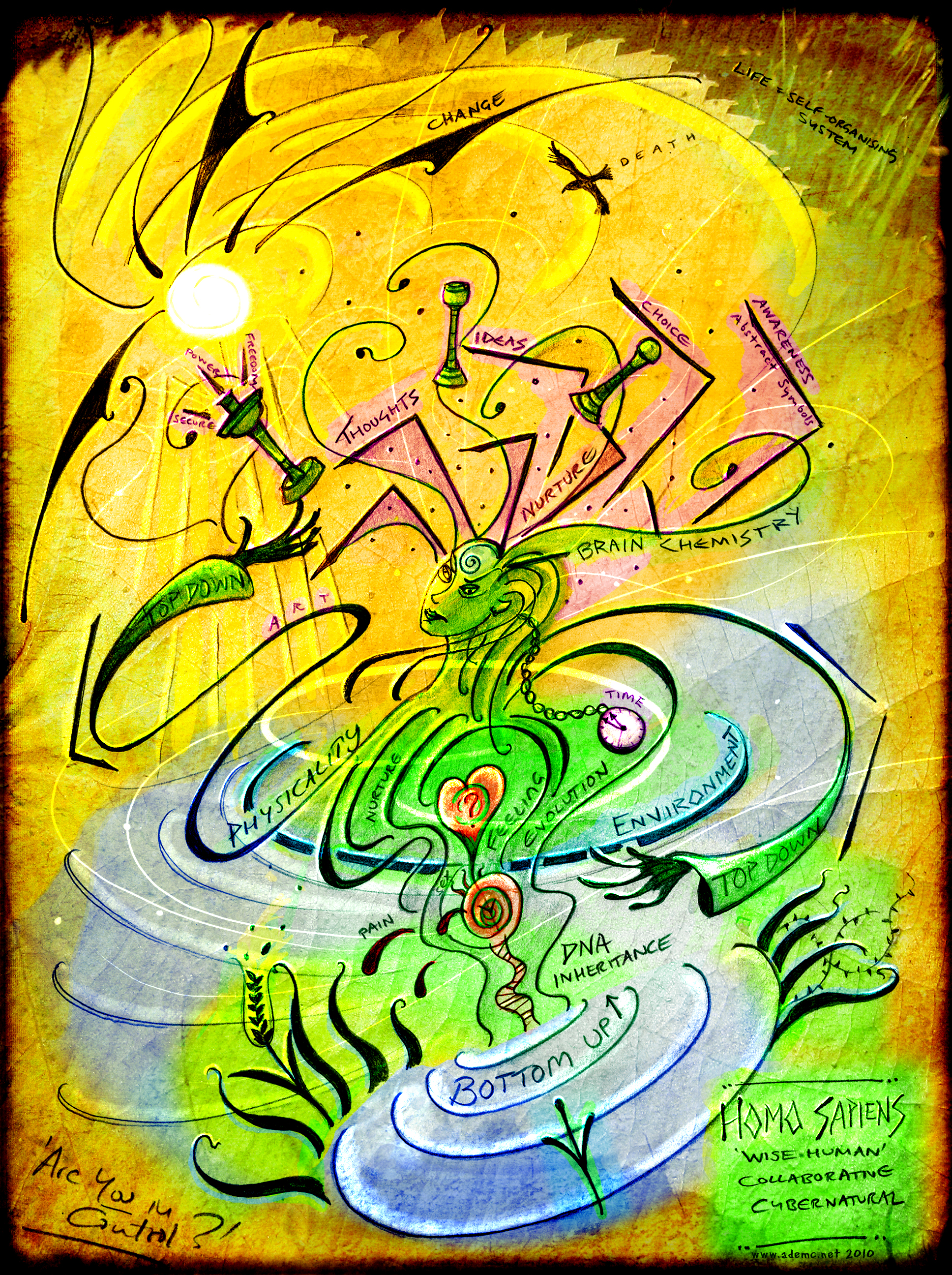 Simplistic representation of differing forces or elements within a man or woman. Personal artwork in pencil mixed with natural photo-textures and digital color. Part of 'Cybernature' series.